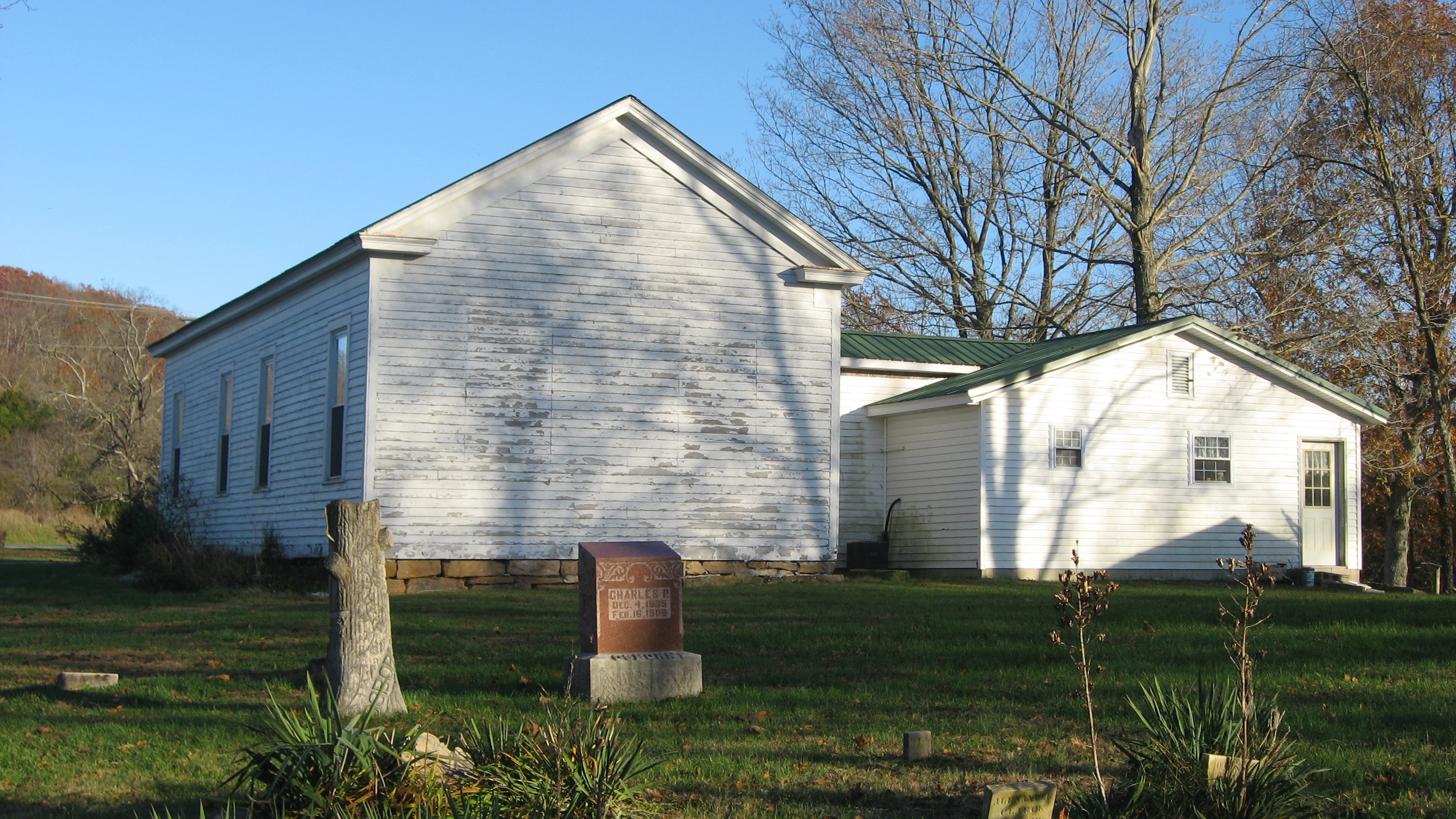 Rear of the Newberry Friends Meeting House (now the Friends of Jesus Fellowship Friends Church) as seen from its cemetery, located at 2153 W. U.S. Route 150/State Road 56 west of Paoli in Paoli Township, Orange County, Indiana, United States. Built in 1856, it and its cemeterey are listed together on the National Register of Historic Places.